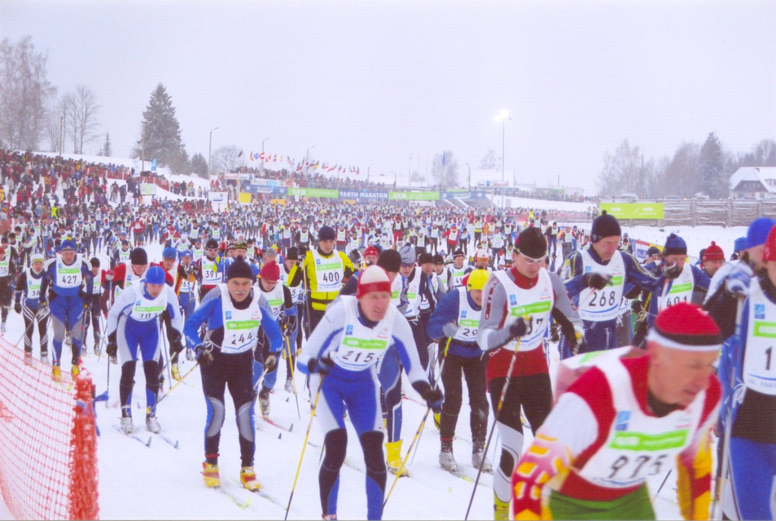 Tartu Marathon 2006, Estonia